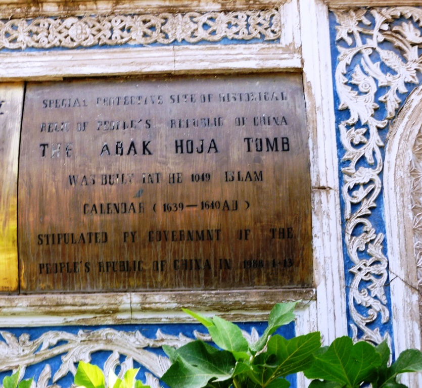 I took these photos on a trip to Kashgar in 2011.